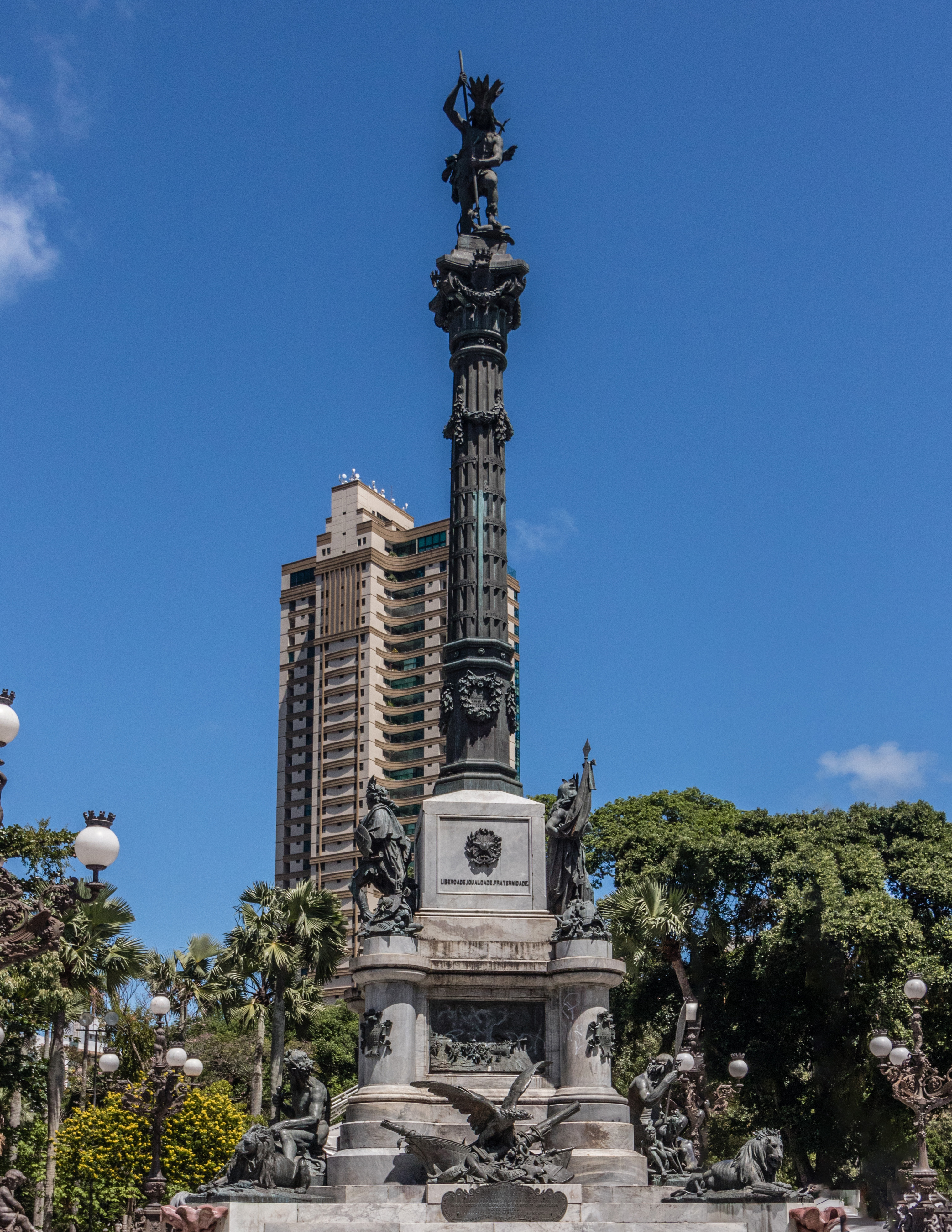 Monument to July the 2nd, Campo Grande Square, a tribute to the independence movement of Bahia. At top of statute: the figure, "O Caboclo". Sculptor: Carlo Nicoliy Manfredi. Inauguration: 1895. Location: Praça Dois de Julho, Canela, Salvador, Bahia.